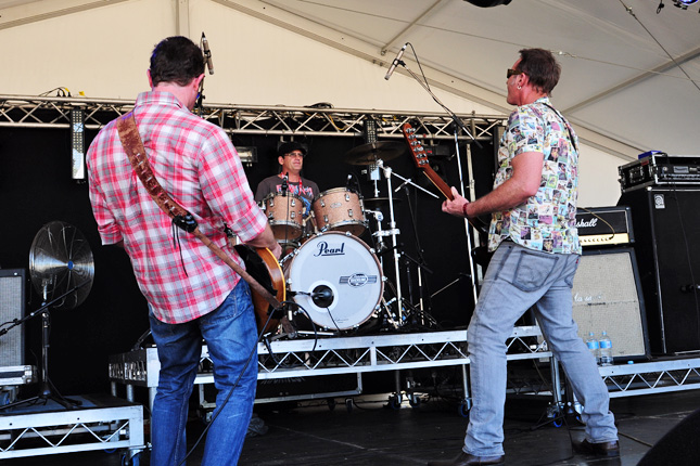 Southbound Festival 2011